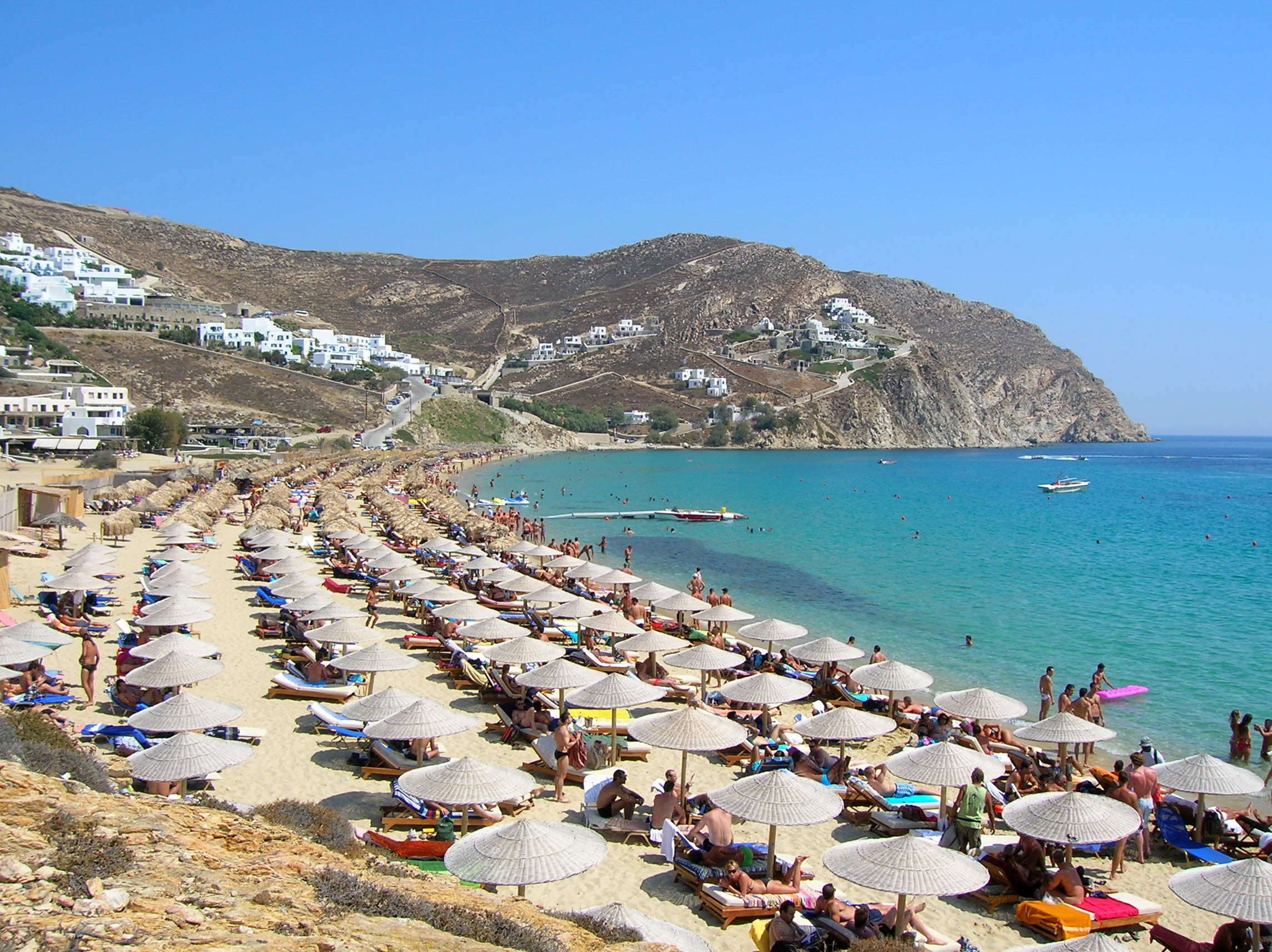 Elias Beach on the Greek Island of Mykonos taken by myself in August 2007.